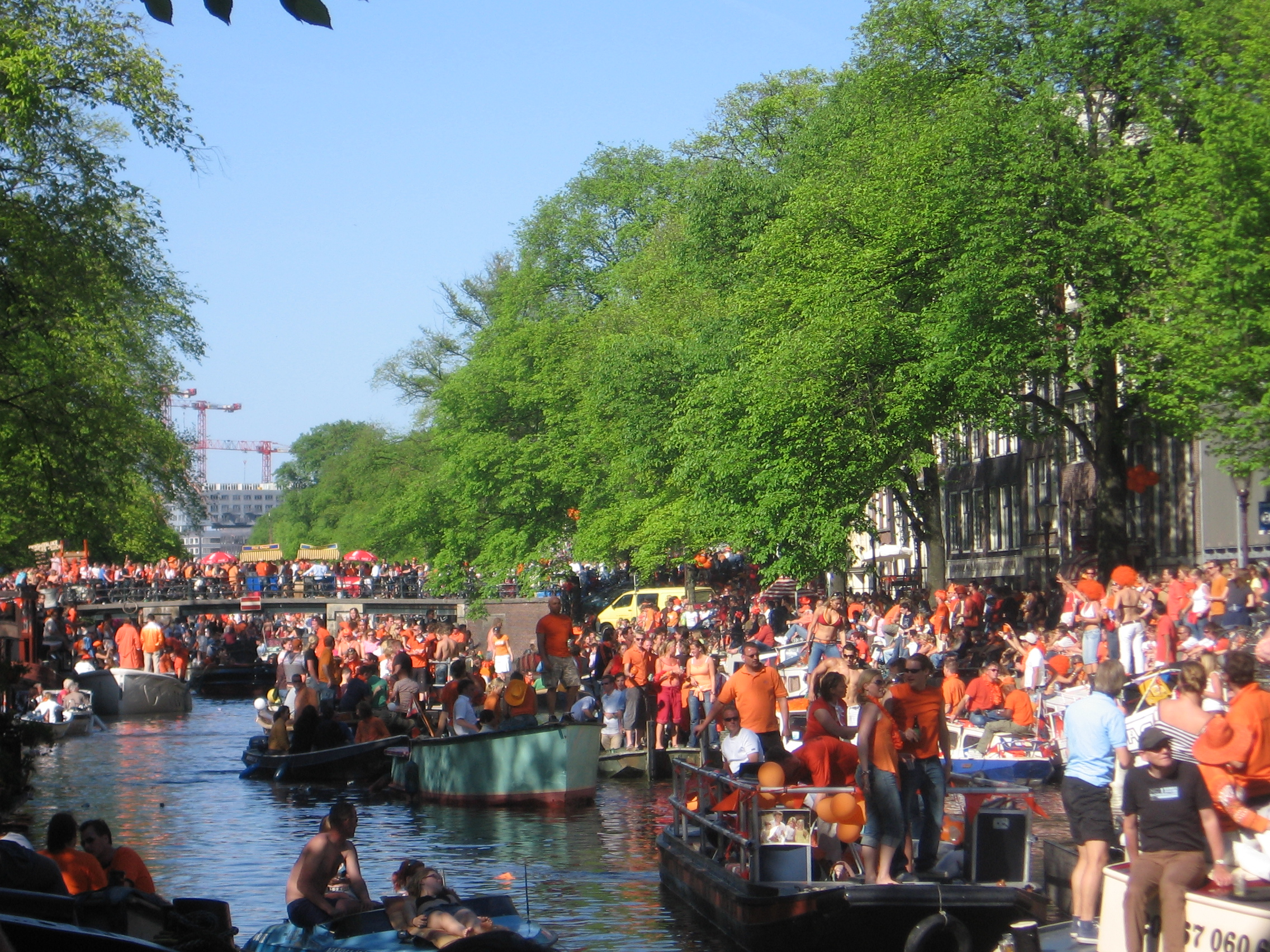 Queensday 2007, Amsterdam, the Netherlands.